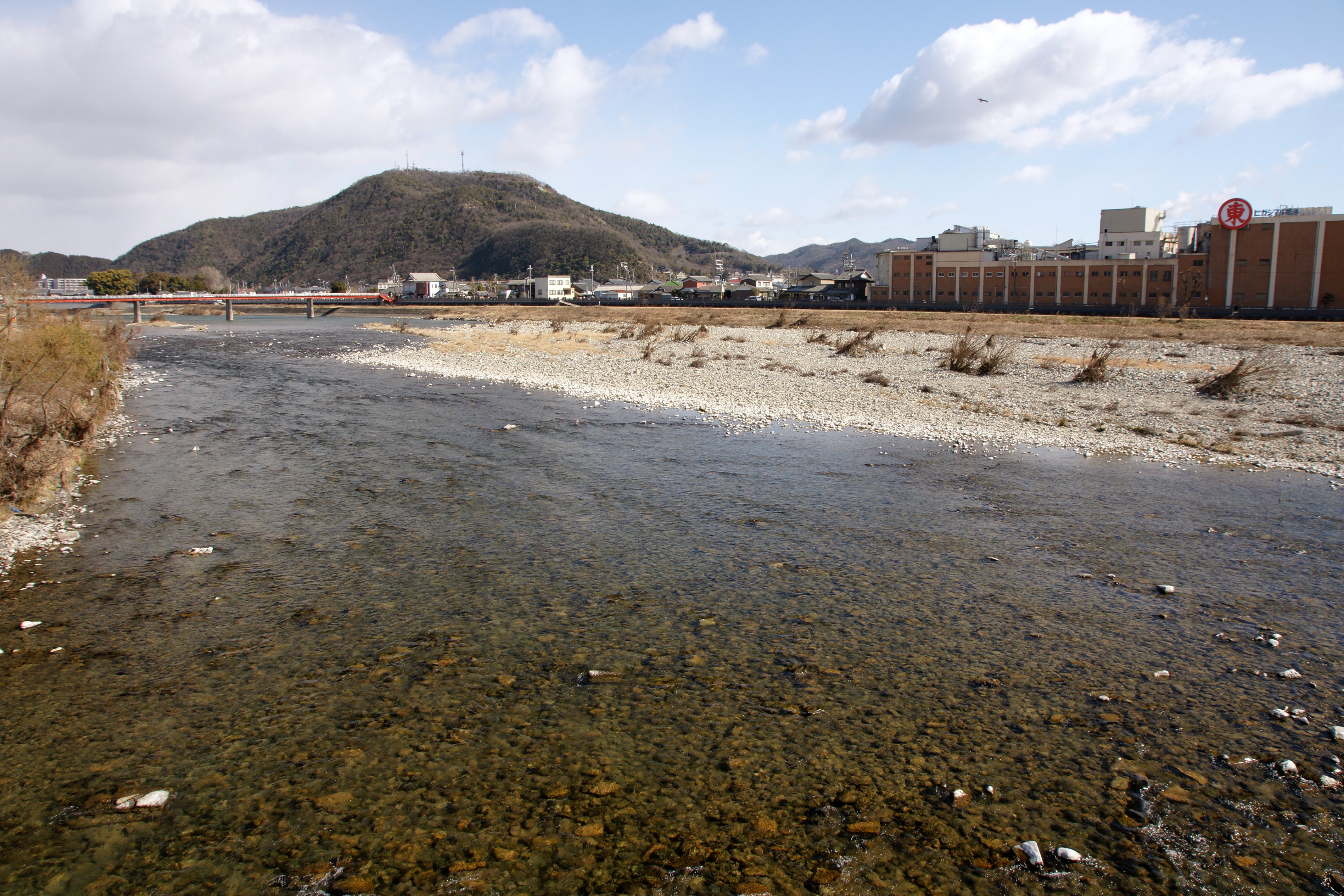 Ibo River at Tatsuno, Hyogo prefecture, Japan